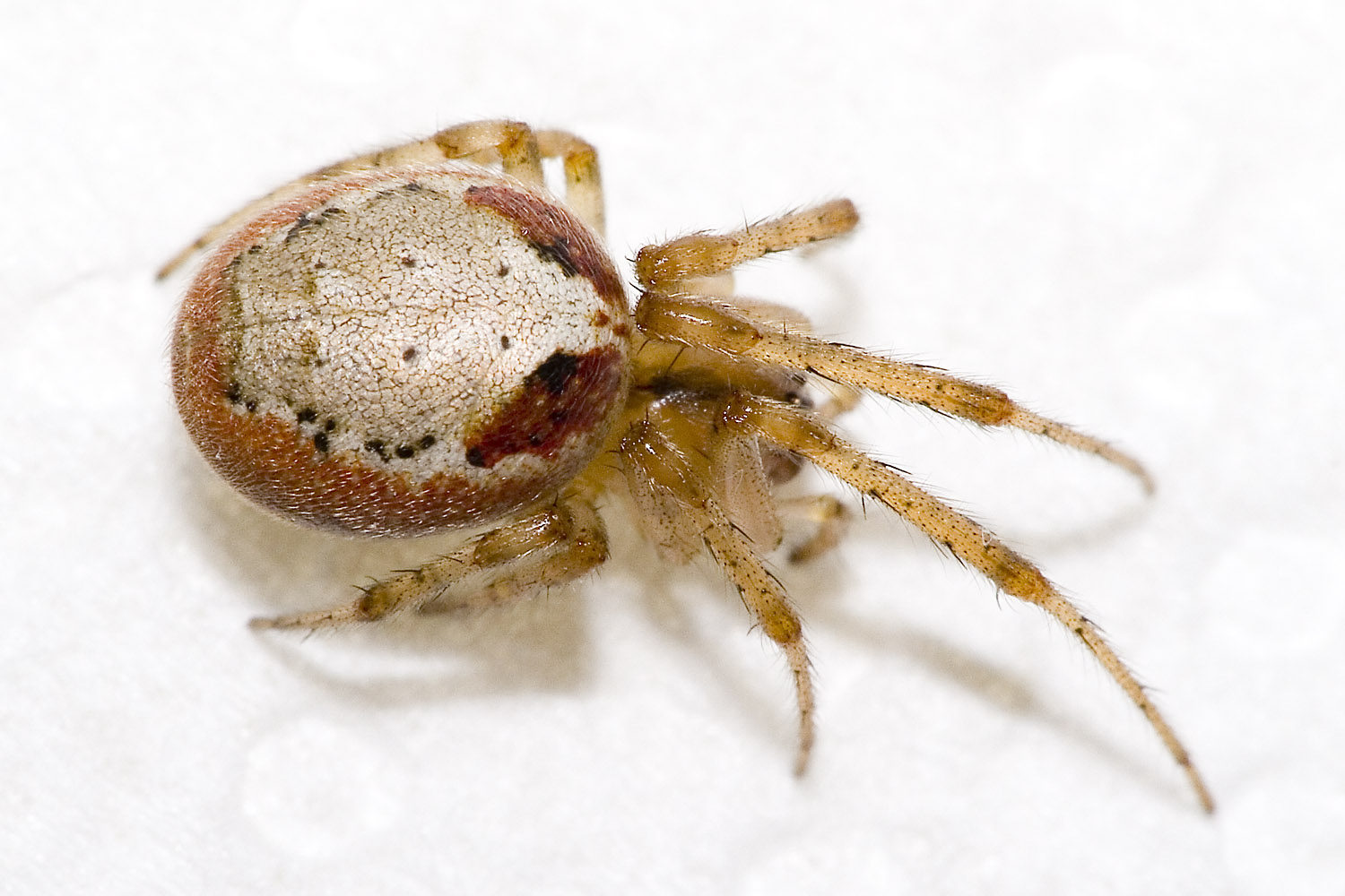 Zygiella atrica, female; Many thanks to Aloysius Staudt from for determination!